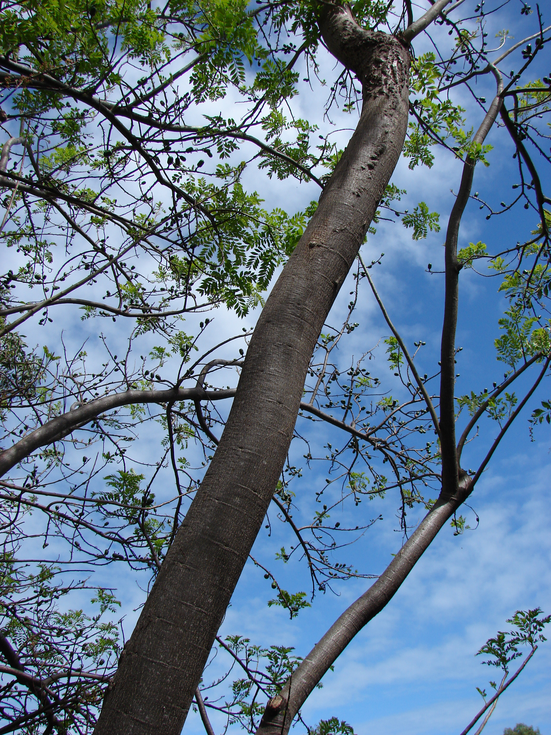 Spondias mombin (fruit and canopy). Location: Maui, Enchanting Gardens of Kula